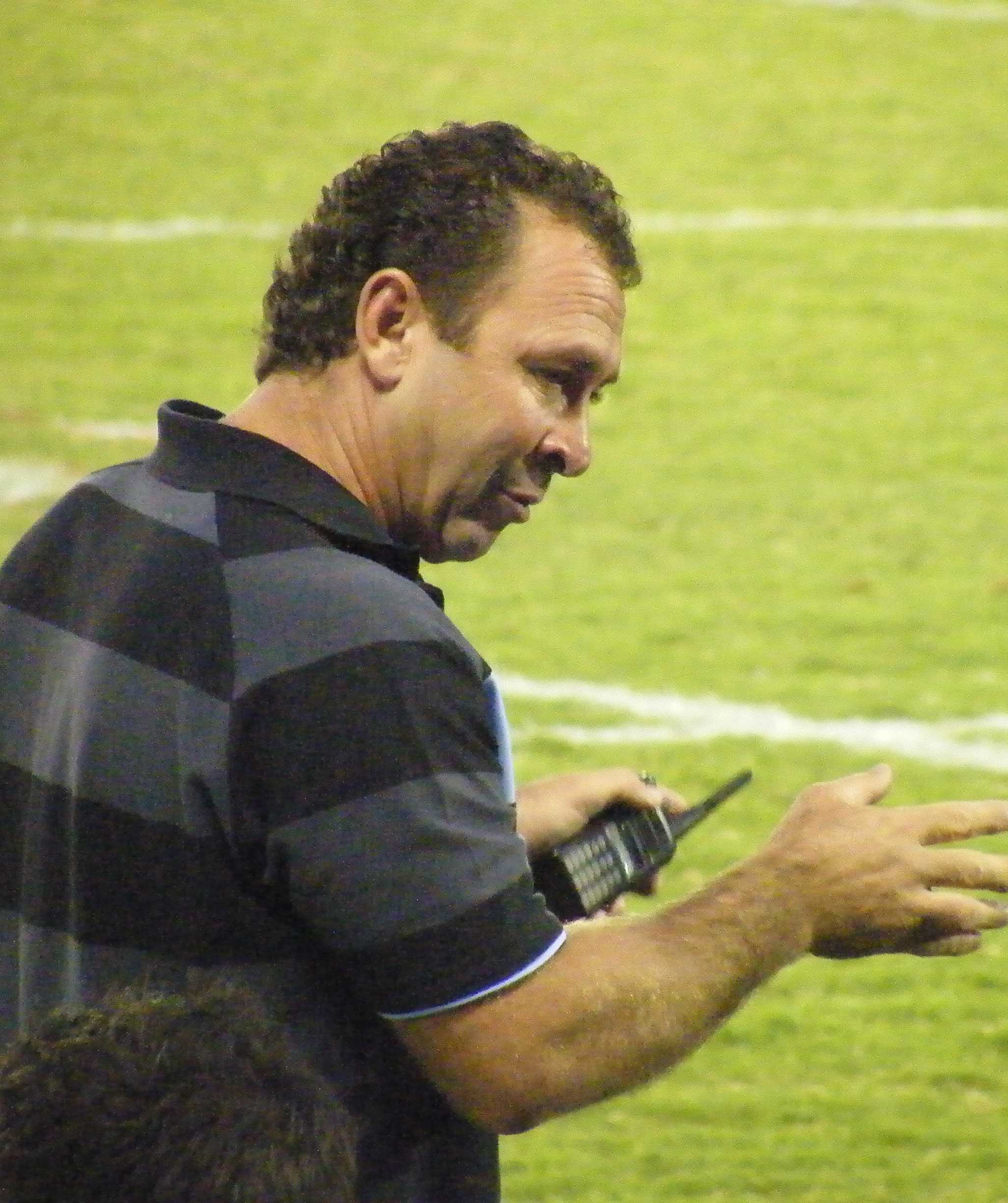 Ricky Stuart of Cronulla RLFC